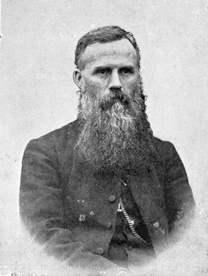 portrait of Bishop Philip Kemball Fyson in Japan